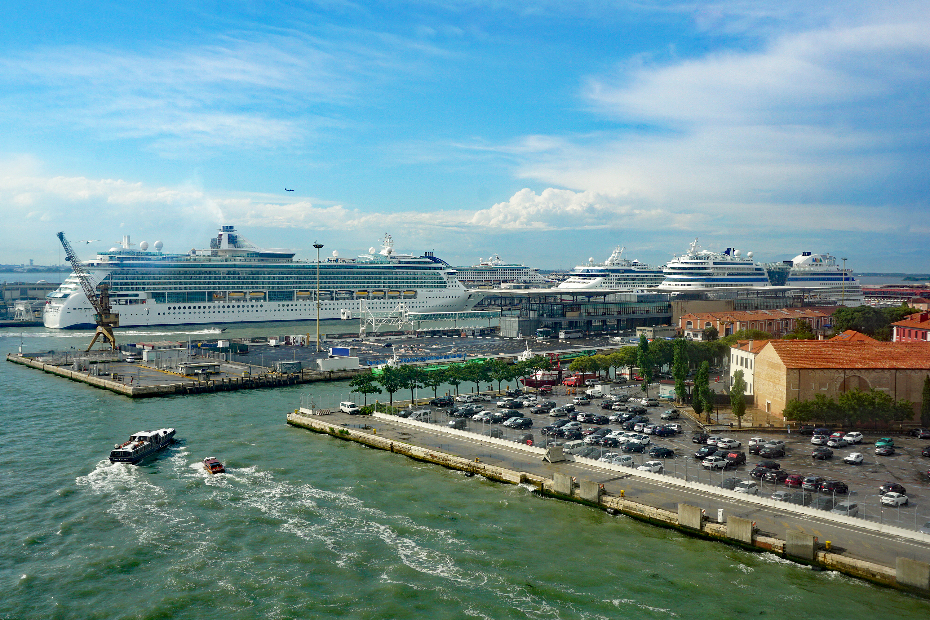 Brilliance of the Seas and other cruise ships docked at Venezia Terminal Passeggeri (Port of Venice, Italy).